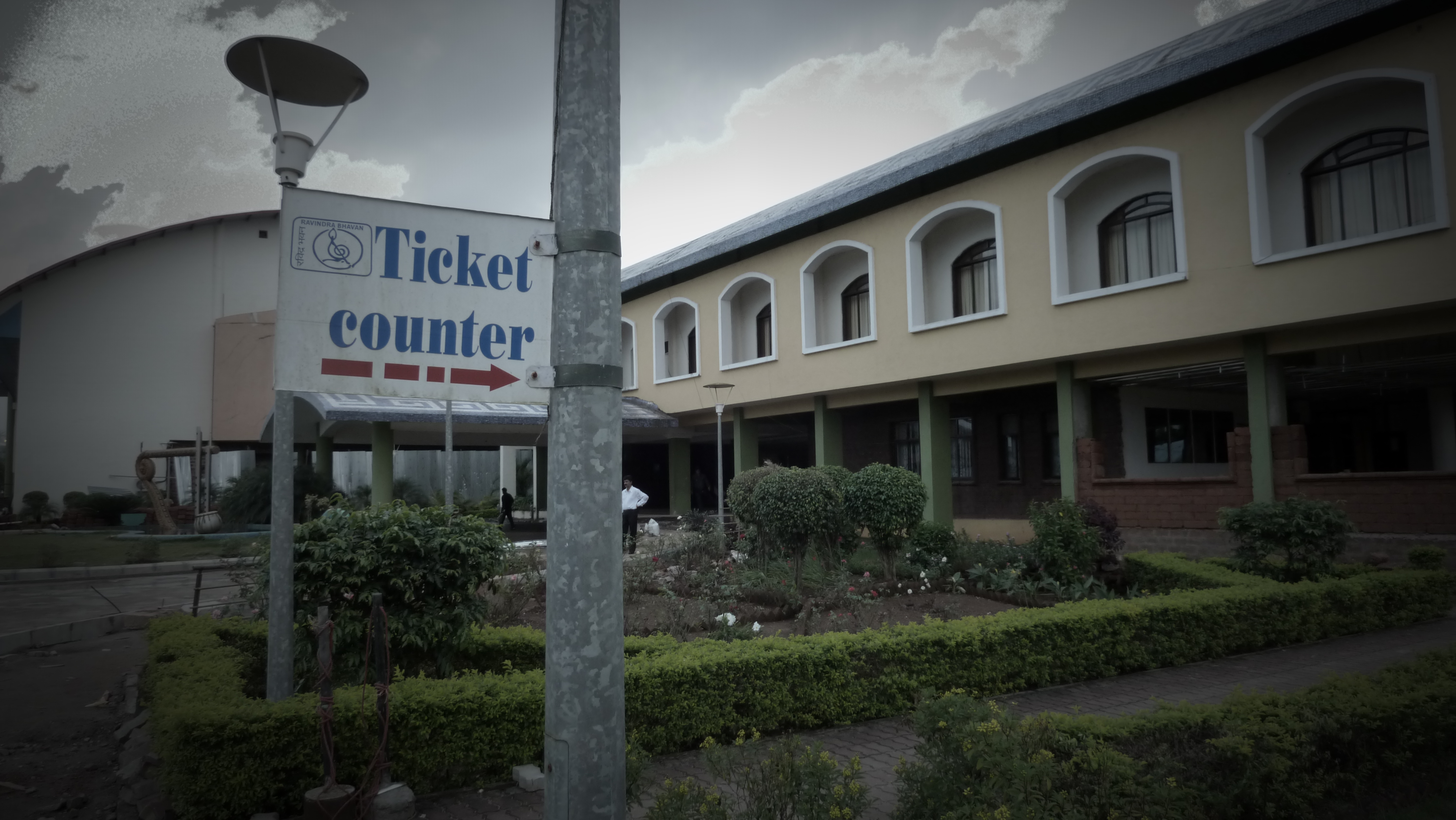 Ravindra Bhavan, at Fatorda, Margao, South Goa . Photo by Frederick Noronha